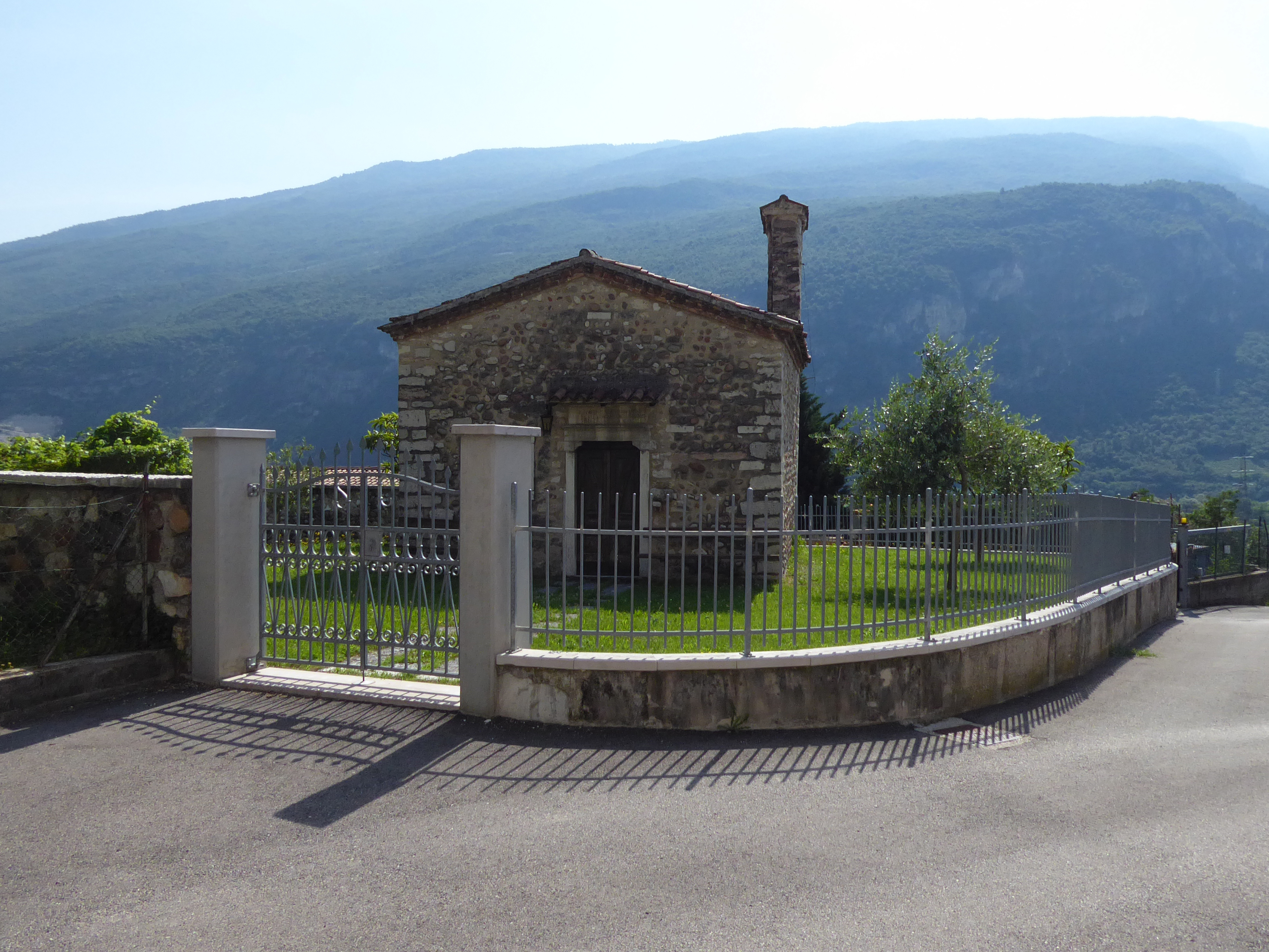 Chizzola (Ala, Trentino, Italy), Saint Cecilia church